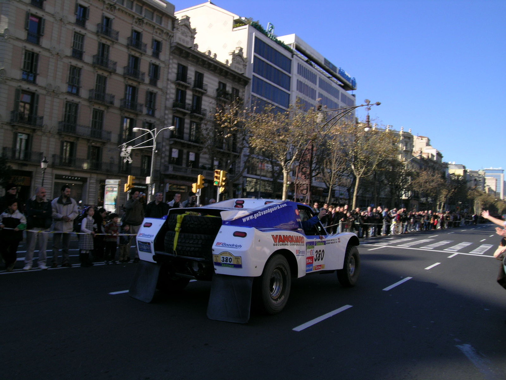 Ronn Bailey, Schlesser-Buggy, Barcelona, Rallye Paris-Dakar, January 2005